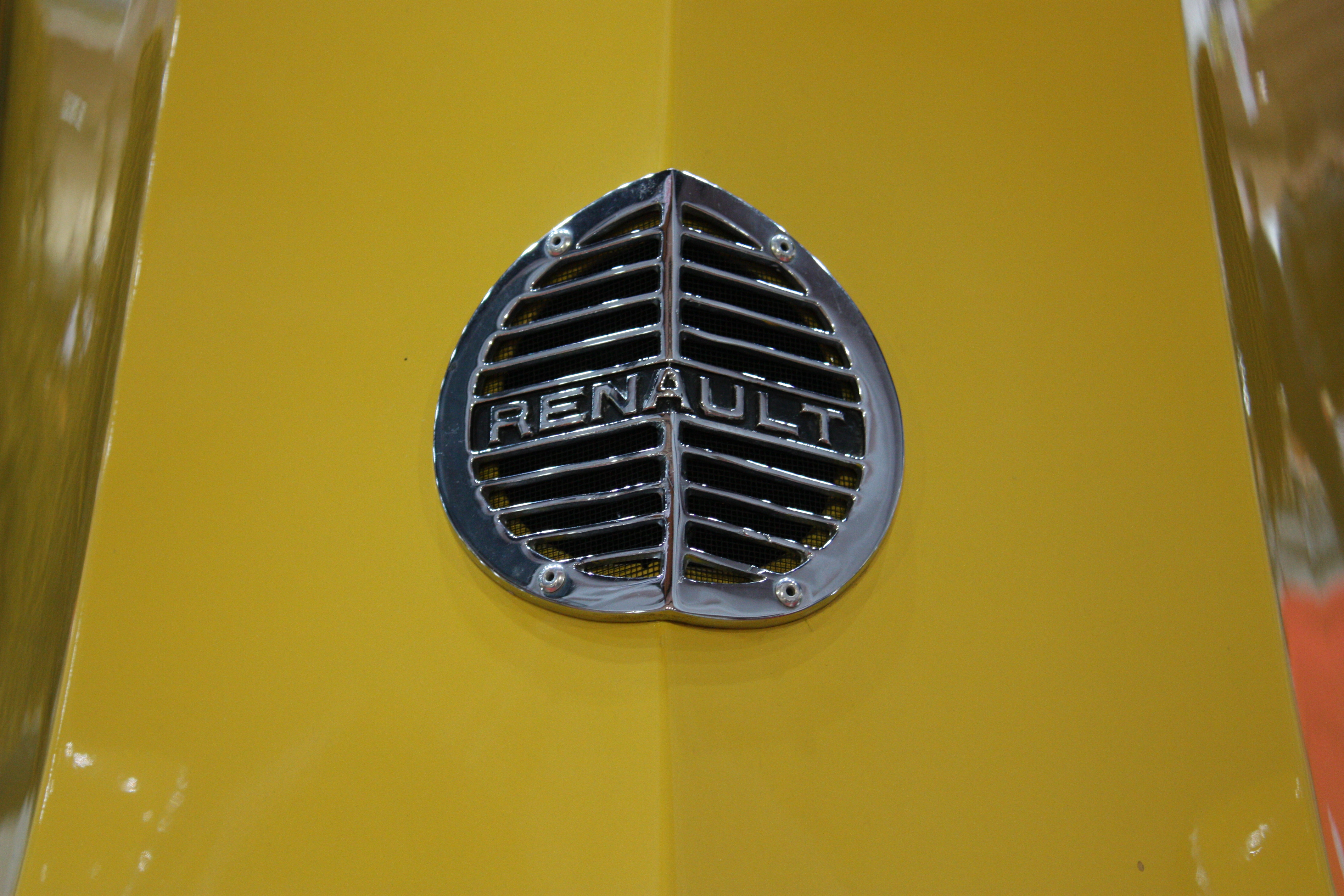 Oldtimer Show 2008. Logo of Renault 1923-1925.